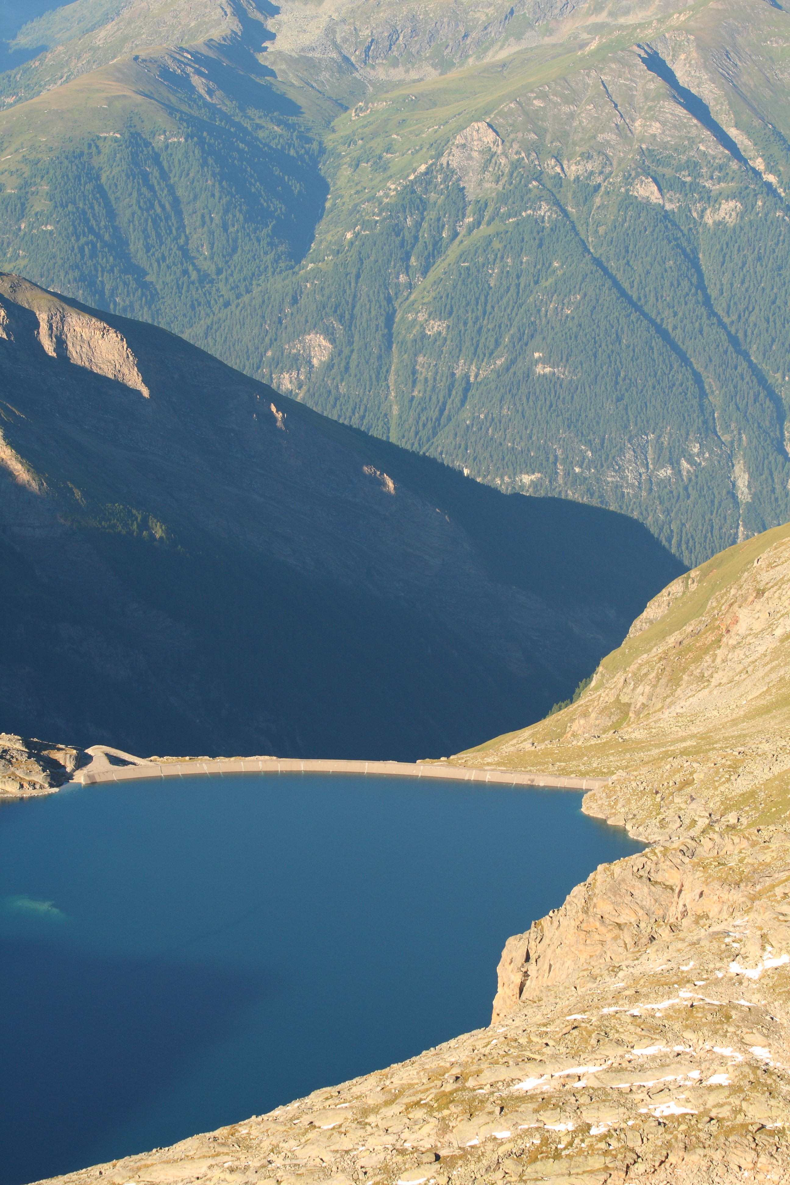 Hocharn, Rauris, Salzburg, Austria